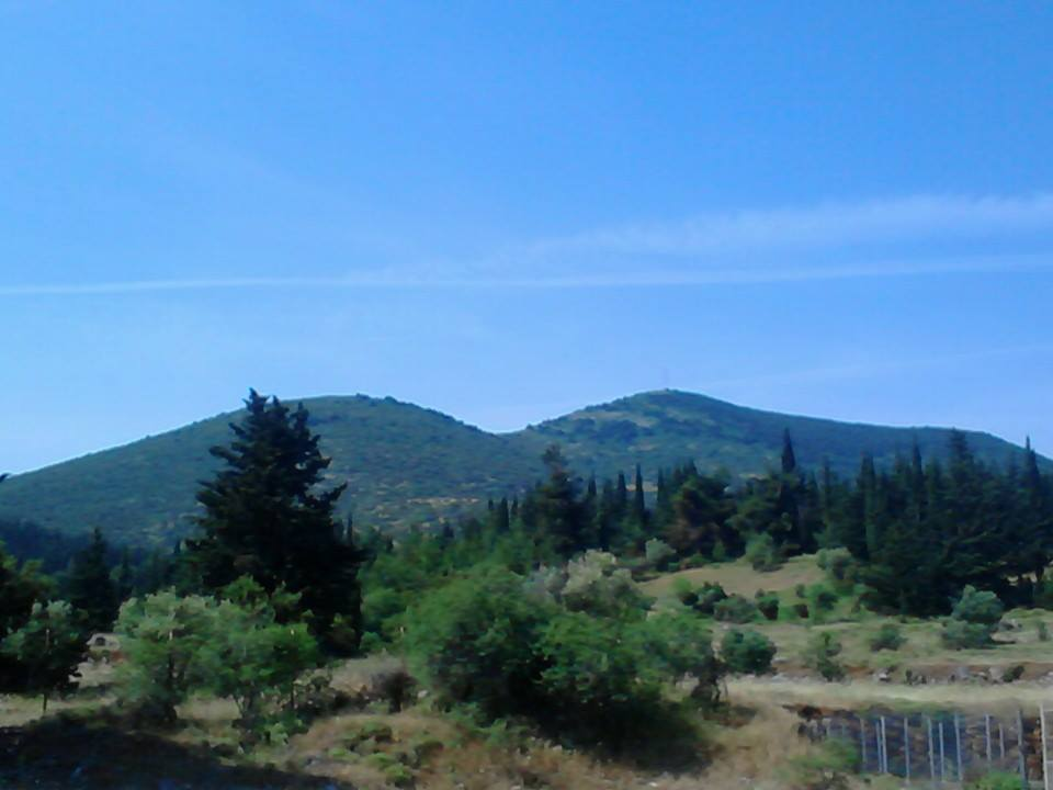 Mountain Kitheronas, Greece. View from village Erithres.